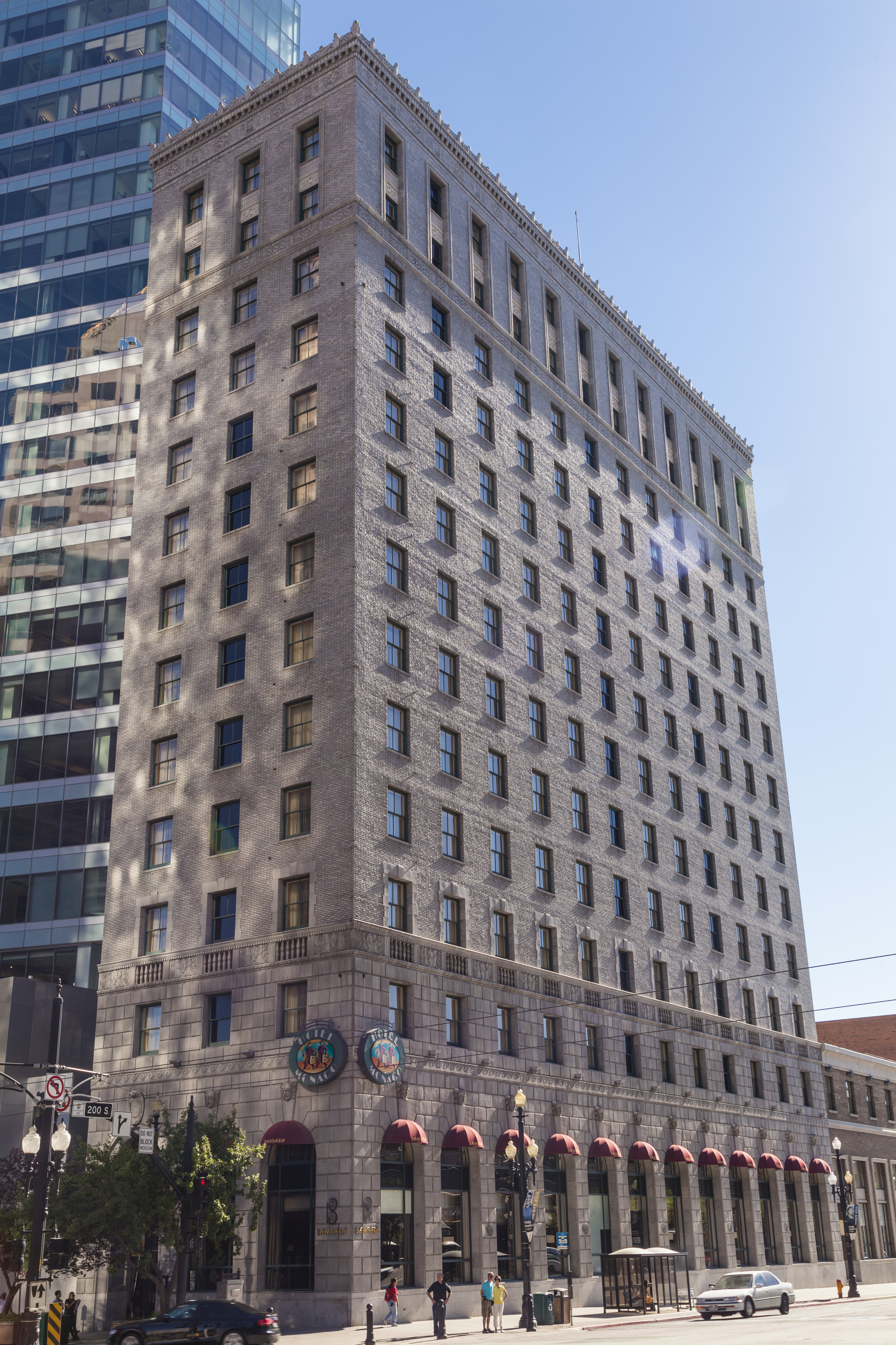 Hotel Monaco in Salt Lake City, Utah, USA.